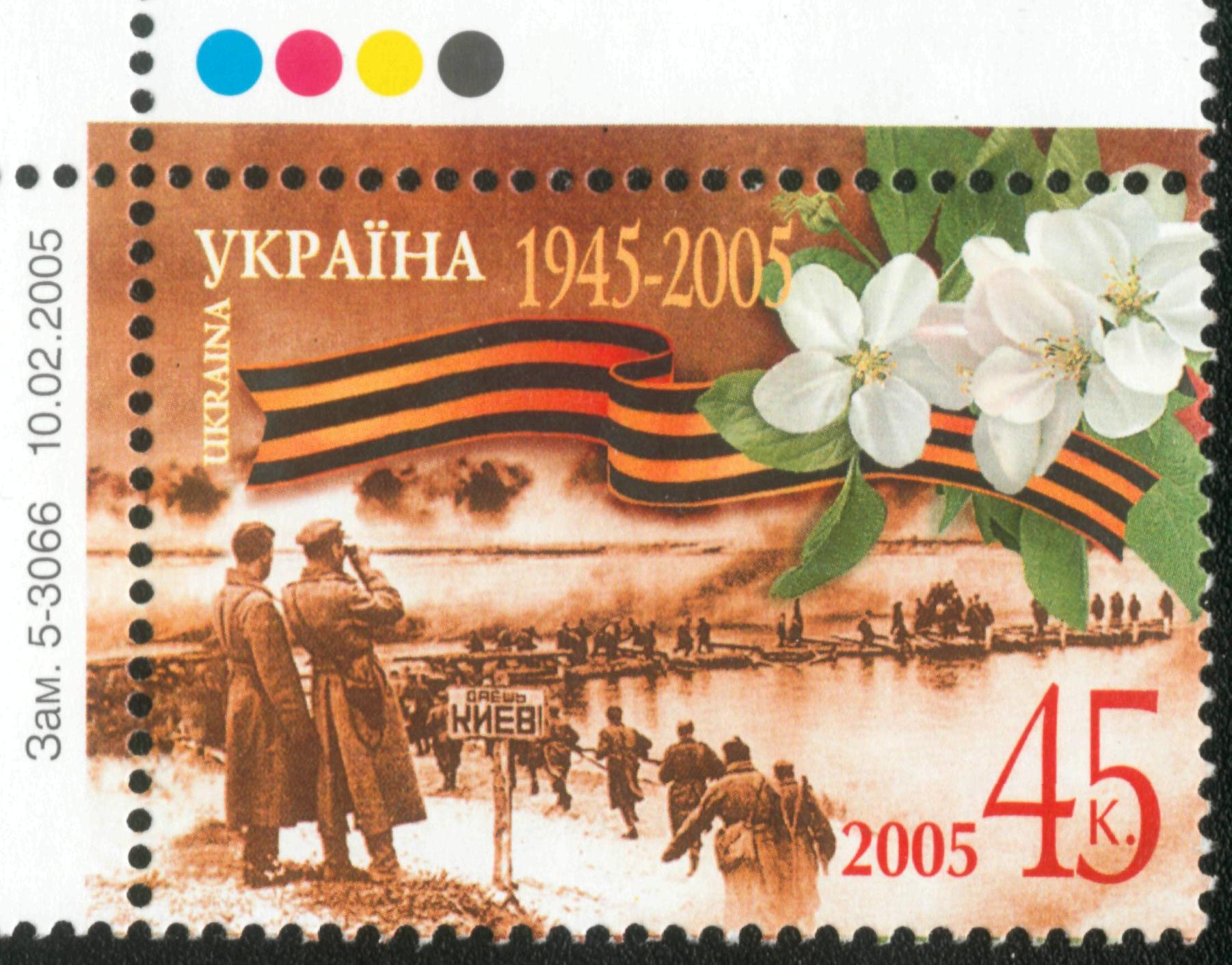 Ukrainian Stamp issued February 10, 2005, commemorating the 60 year anniversary since the victory in World War II.